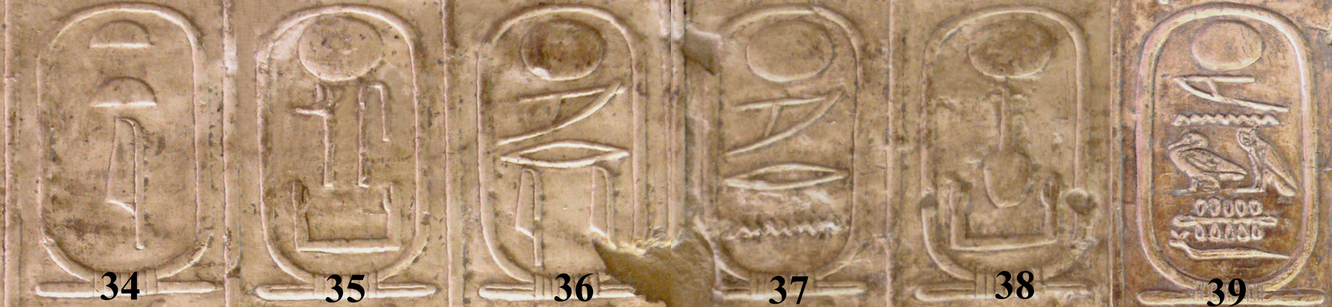 Royal cartouches 34 through 39